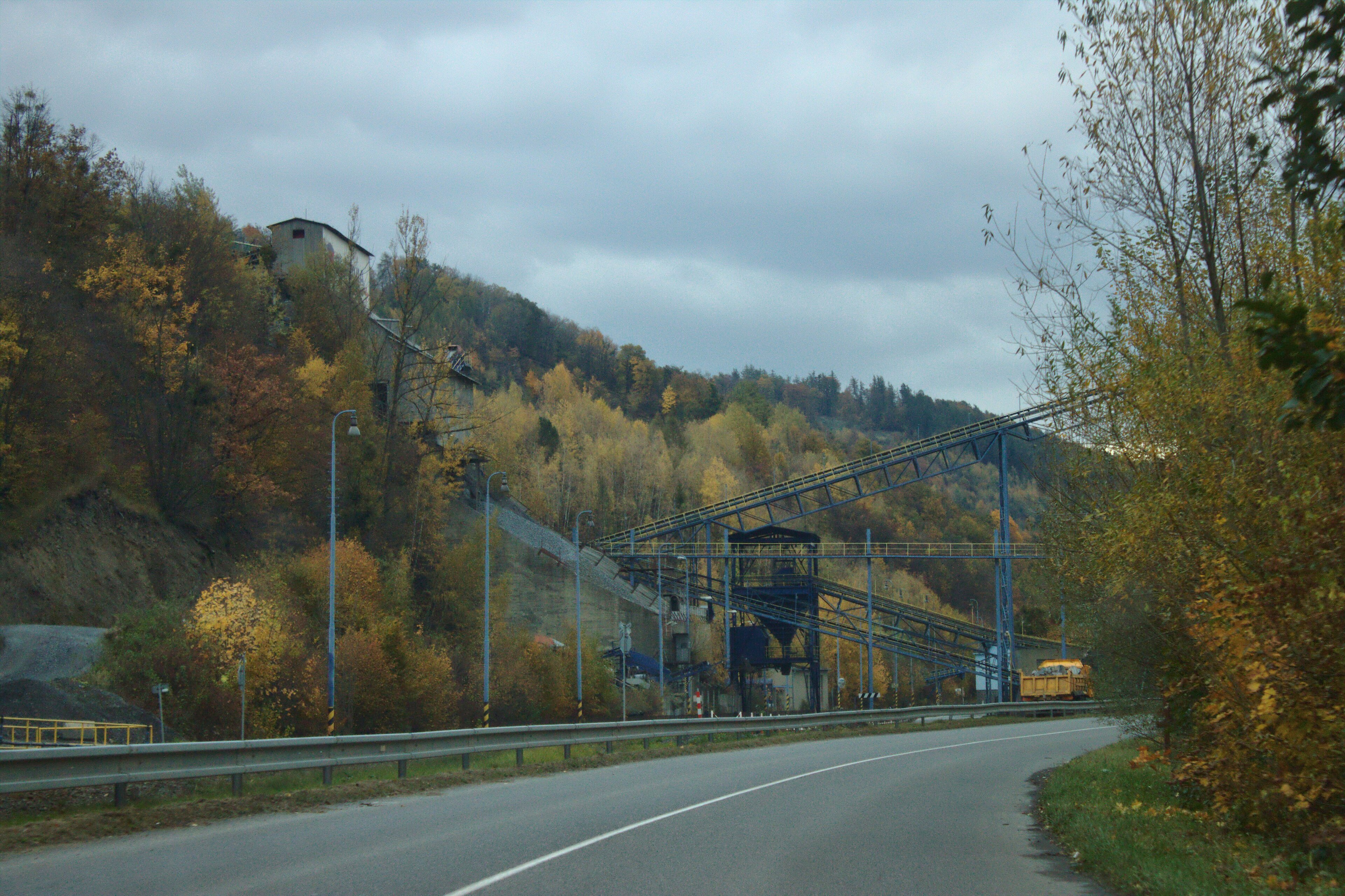 A quarry in Jakubčovice nad Odrou, CZ